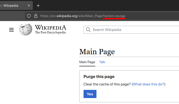 How to clear the server cache (URL manipulation way). The screenshot is taken from Wikipedia. This image might be useful to illustrate a help page about server cache.